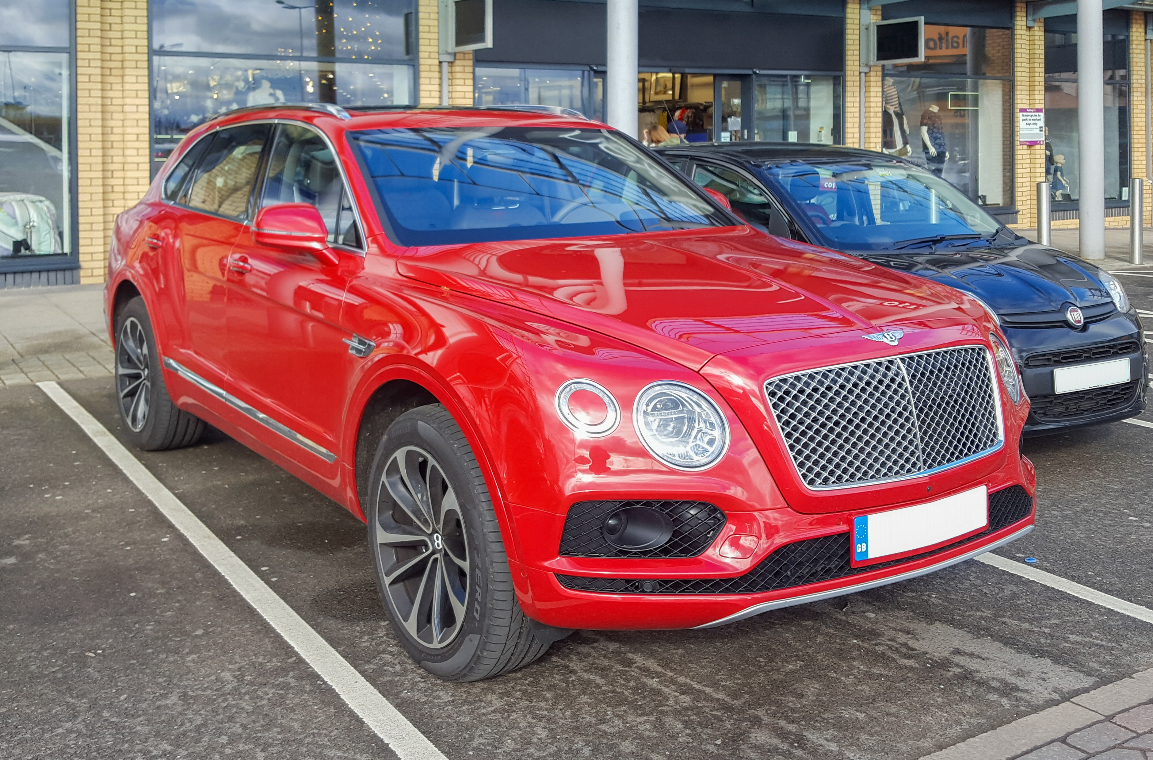 A 2015 Bentley Bentayga